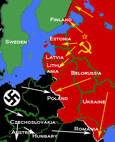 From the original en.wikipedia page: Description: Map depicting most of Central and Eastern Europe, showing 1938 borders, along with Axis (black) and Soviet (red) military and political advances until late 1940. Source: Own map, based on the maps of the University of Texas Libraries Author: Mosedschurte, February 12, 2009